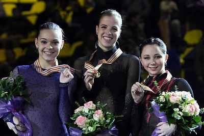 The Ladies podium at the 2013 European Championships. From left to right: Adelina Sotnikova (2nd), Carolina Kostner (1st), Elizaveta Tuktamysheva (3rd).